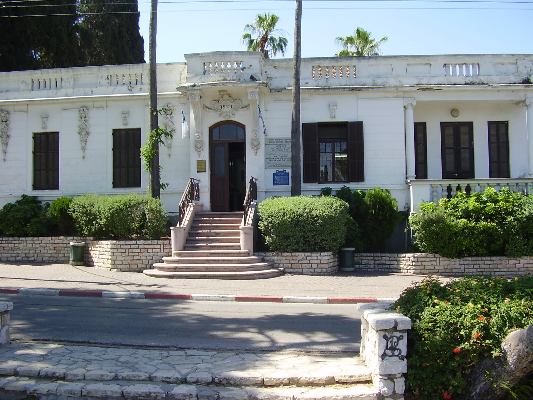 gedera historic museum in mintz house